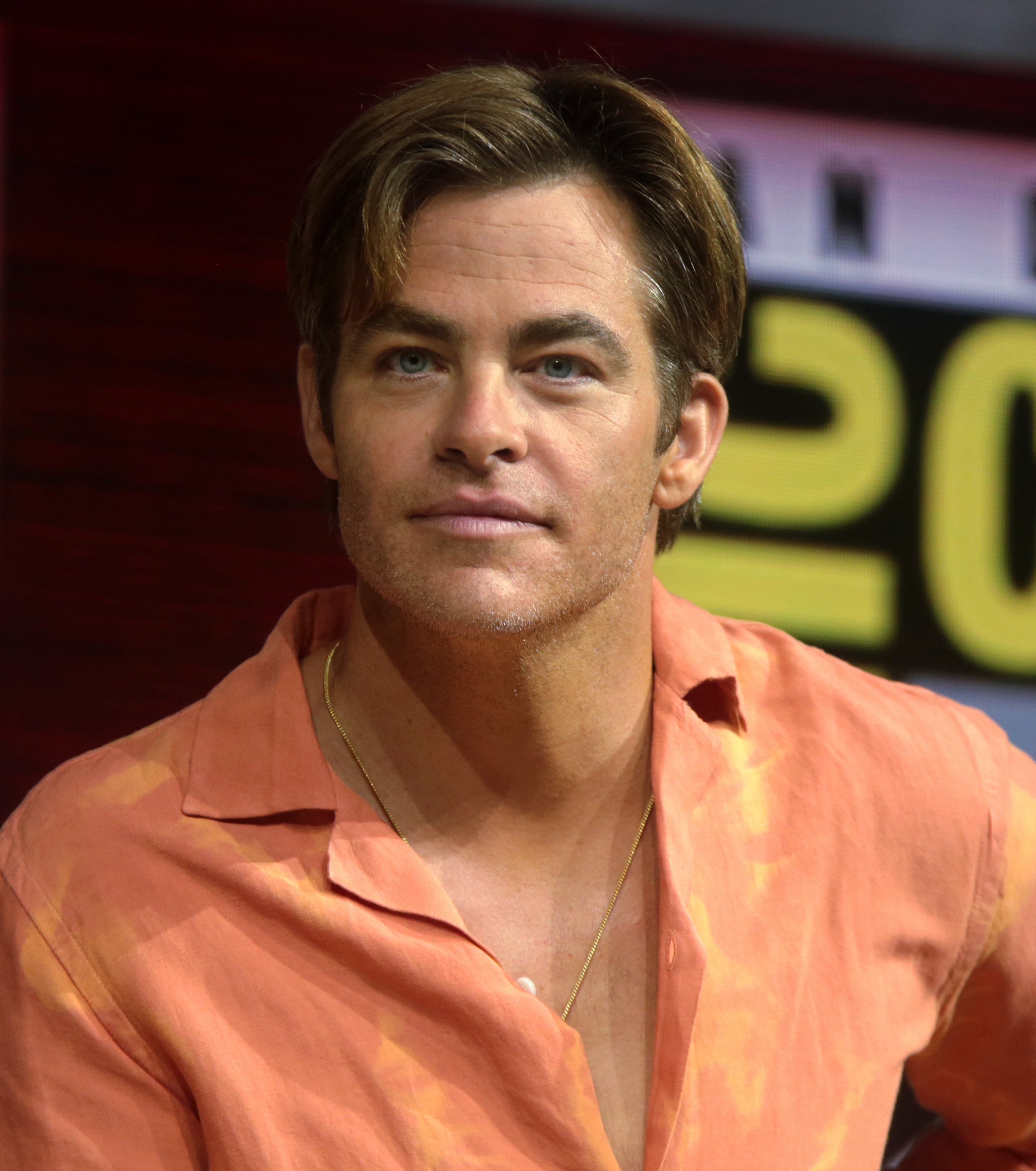 Chris Pine speaking at the 2018 San Diego Comic Con International, for "Wonder Woman 1984", at the San Diego Convention Center in San Diego, California.